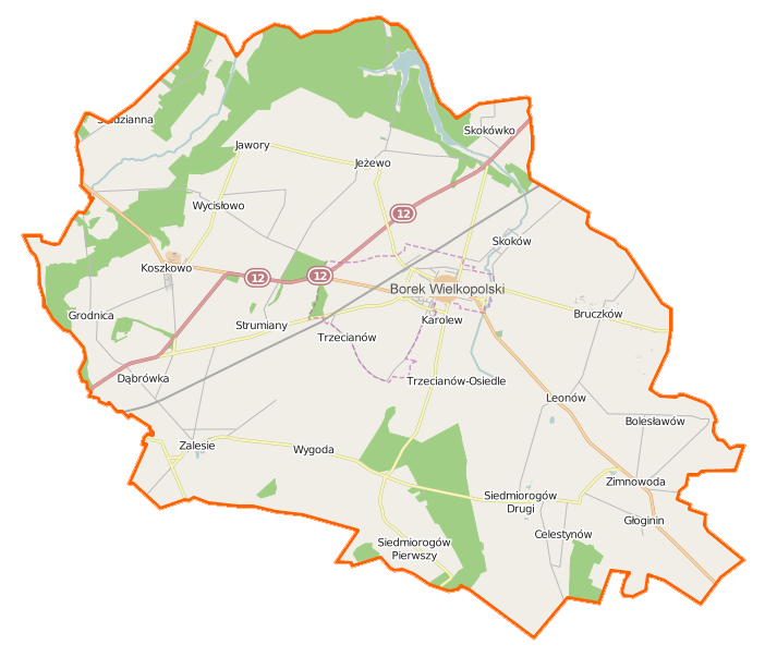 Map of Gmina Borek Wielkopolski, Poland This map of Borek Wielkopolski (gmina) was created from OpenStreetMap project data, collected by the community. This map may be incomplete, and may contain errors. Don't rely solely on it for navigation. Border coordinates51.972417.1026←↕→17.343351.8443